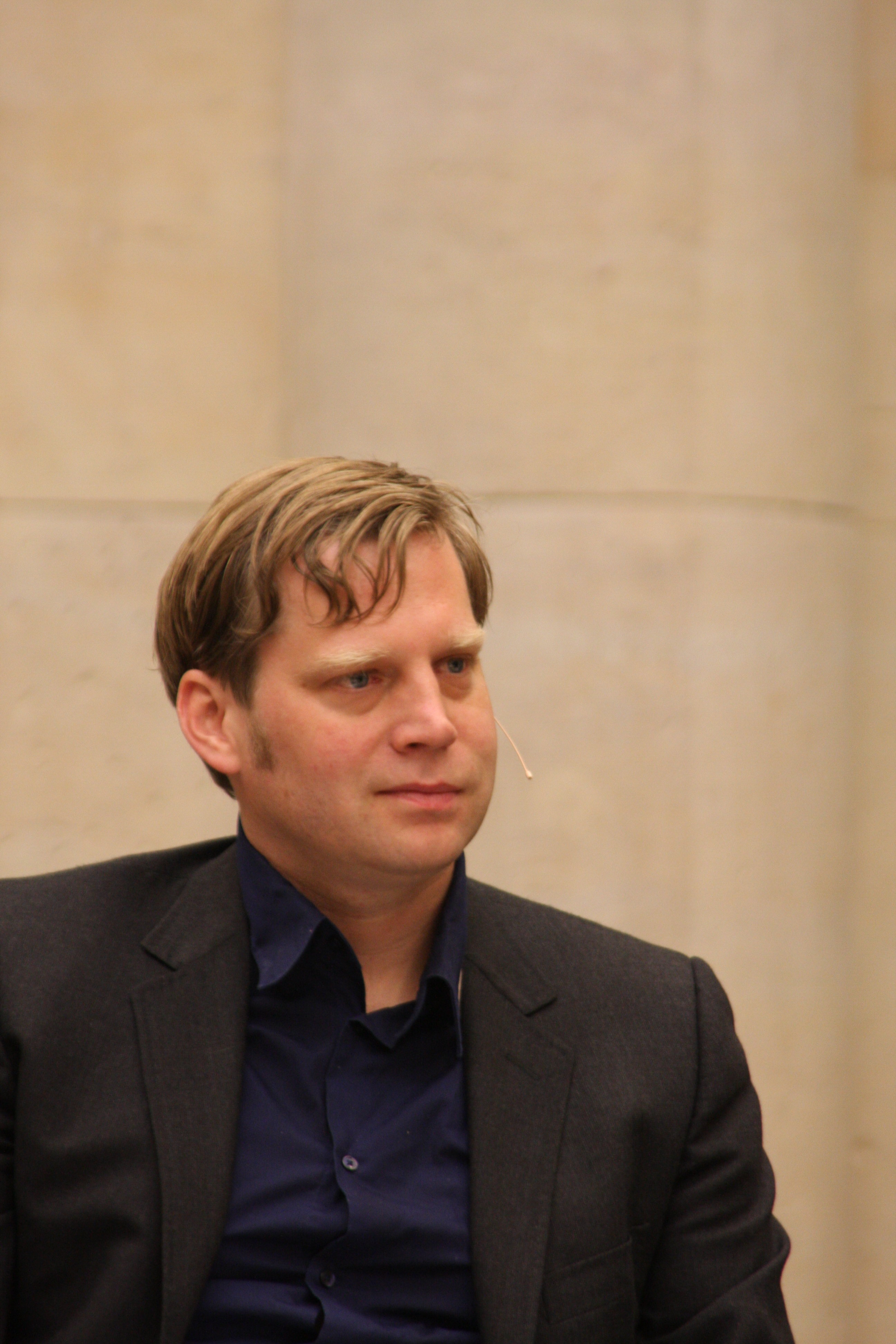 Wikipedia Academy 2008, Berlin